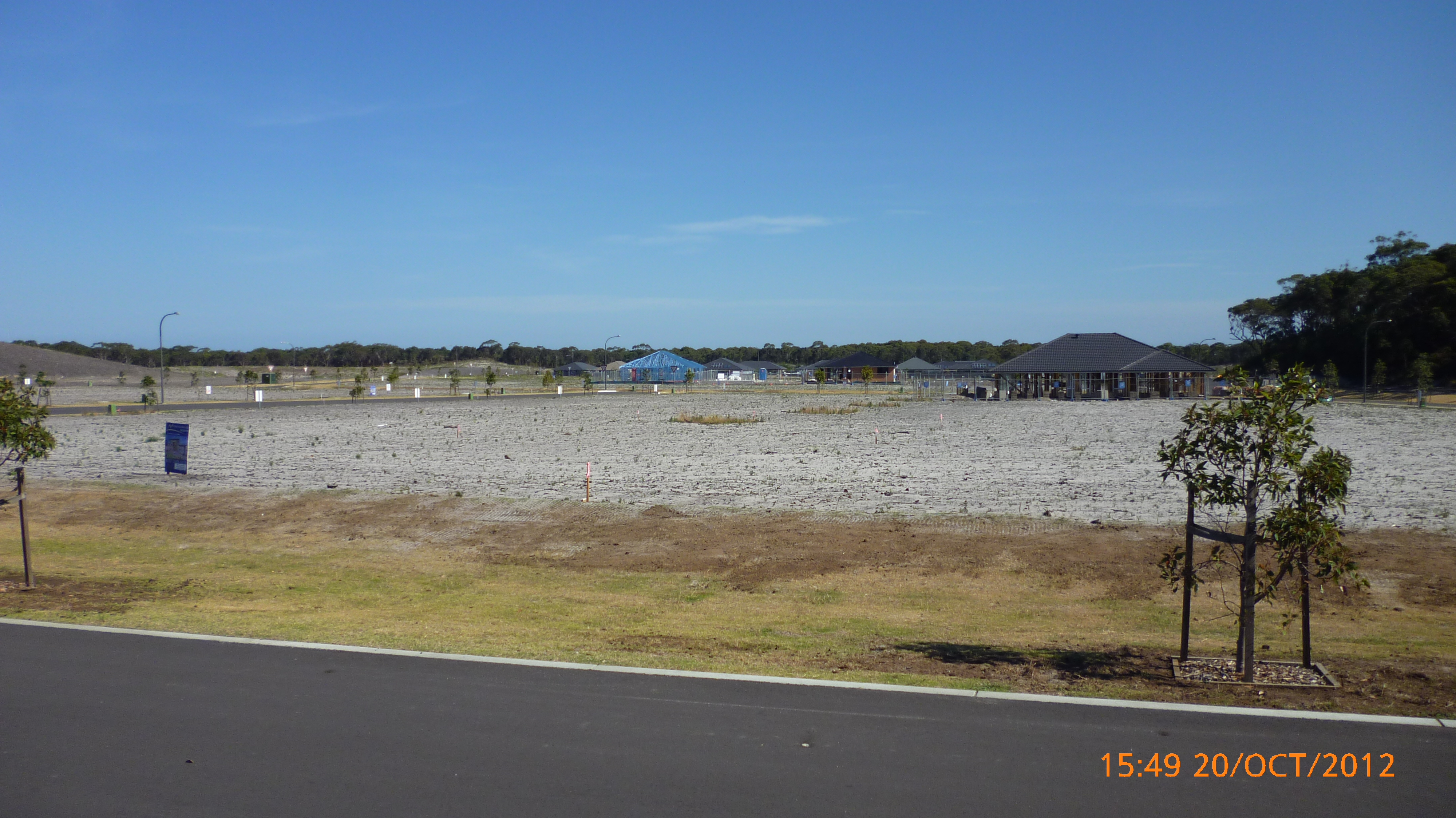 New subdivision works at Fern Bay in New South Wales, Australia. View looking south from a point approximately midway between Nelson Bay Road and Stockton Beach